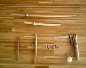 Shindo Muso-ryu weapons